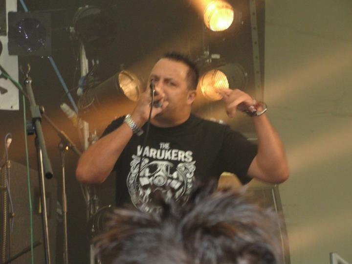 Keith Haynes ( Musician ) in Vienna 2010